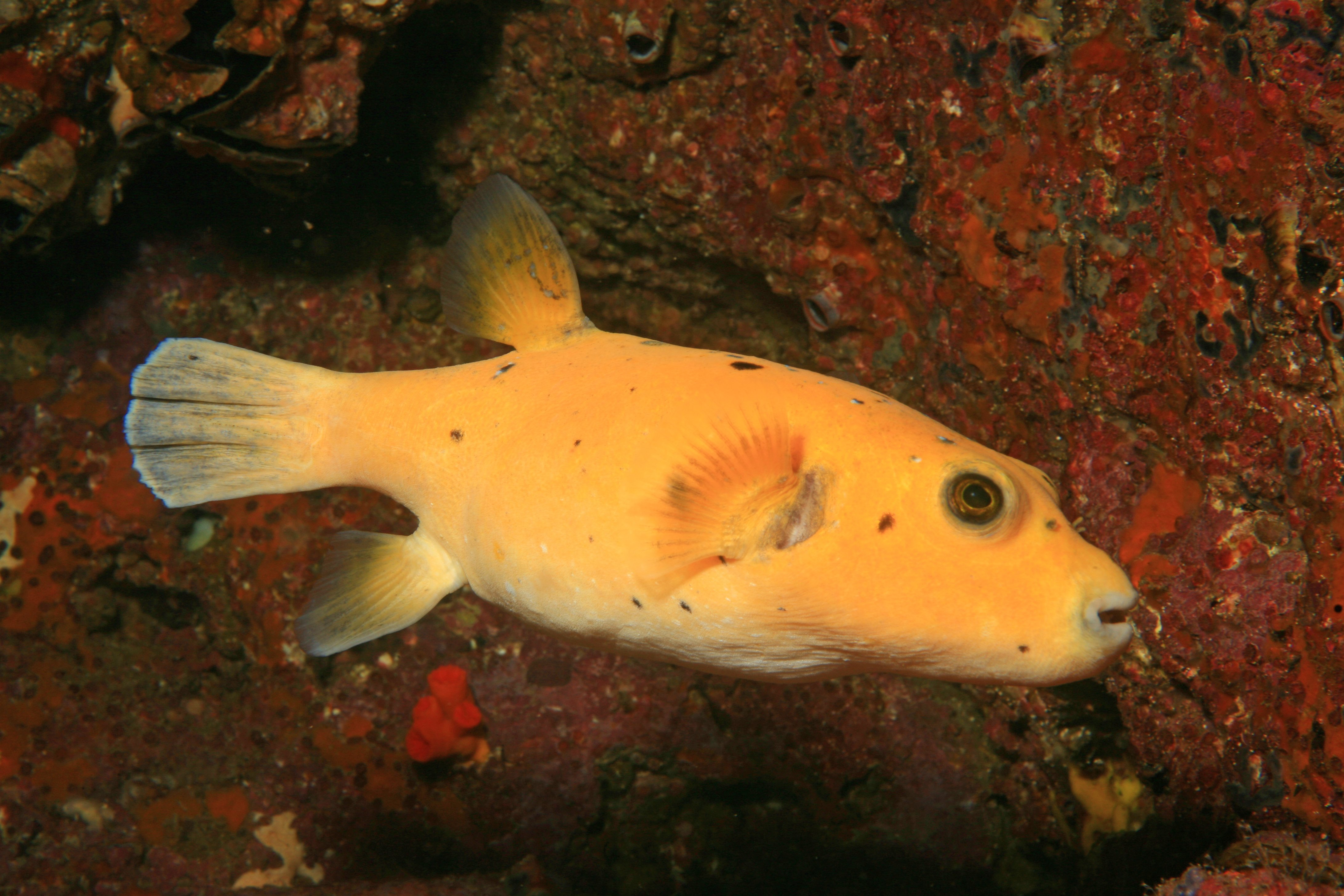 The Guineafowl Puffer (Arothron meleagris) is found in two distinct color varieties. It is hard to believe that they are the same species. The yellow form was very striking. Photographed at Cholo (Buddy) dive site in Coiba National Park, Panama.